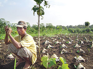 CIFOR's research helps policymakers address smallholder and community forestry concerns in national poverty alleviation strategies.